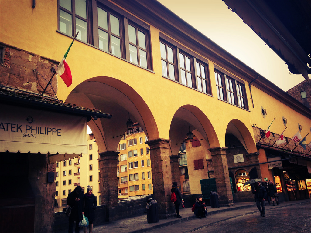 These windows were put into place by Benito Mussolini in 1939 to impress the German leader Adolf Hitler with the panoramic view before an upcoming visit.